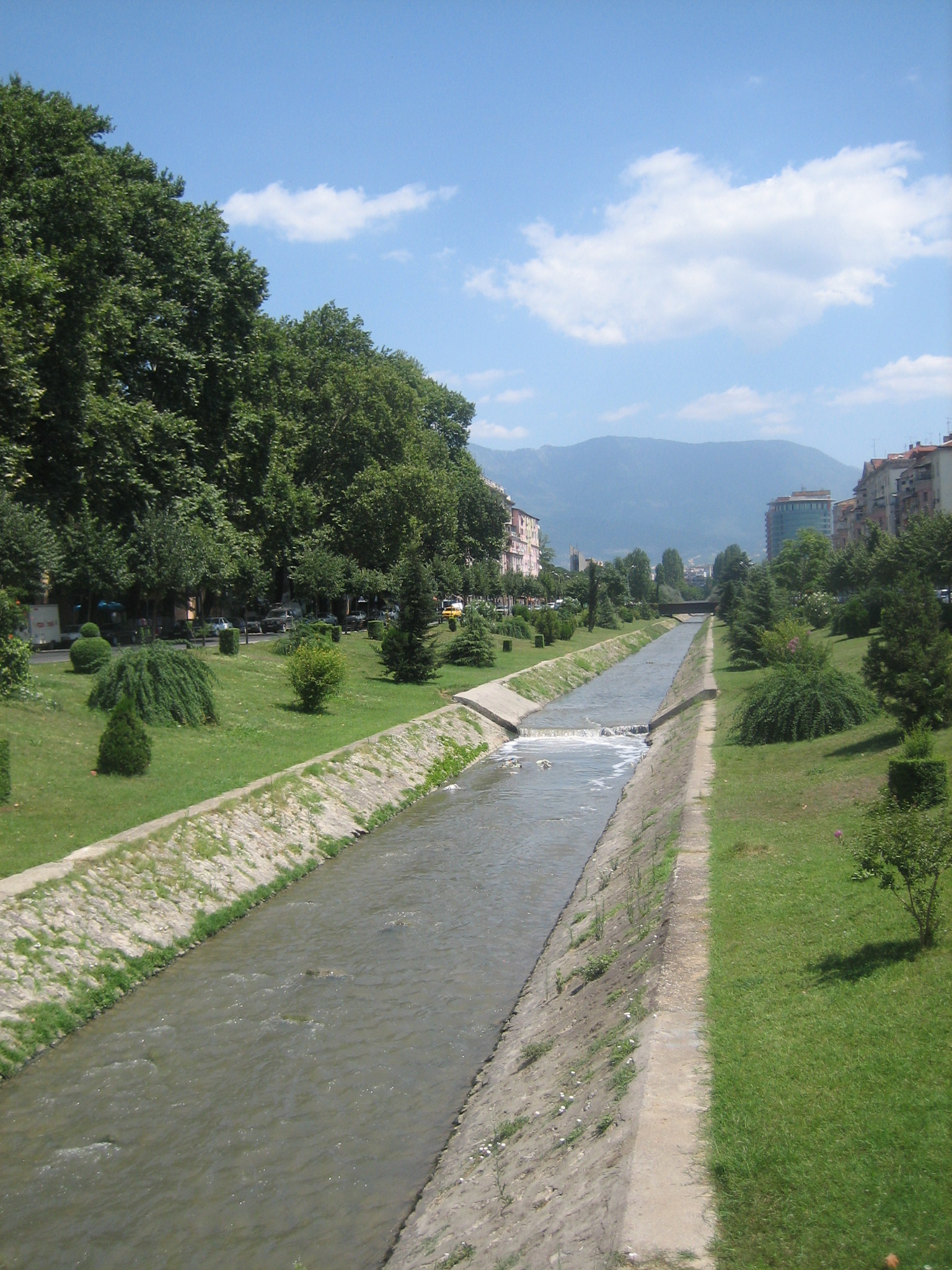 Lanë River in Tirana, Albania